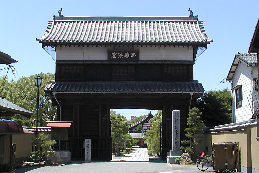 Soufukuji temple, Hakata, Fukuoka city.